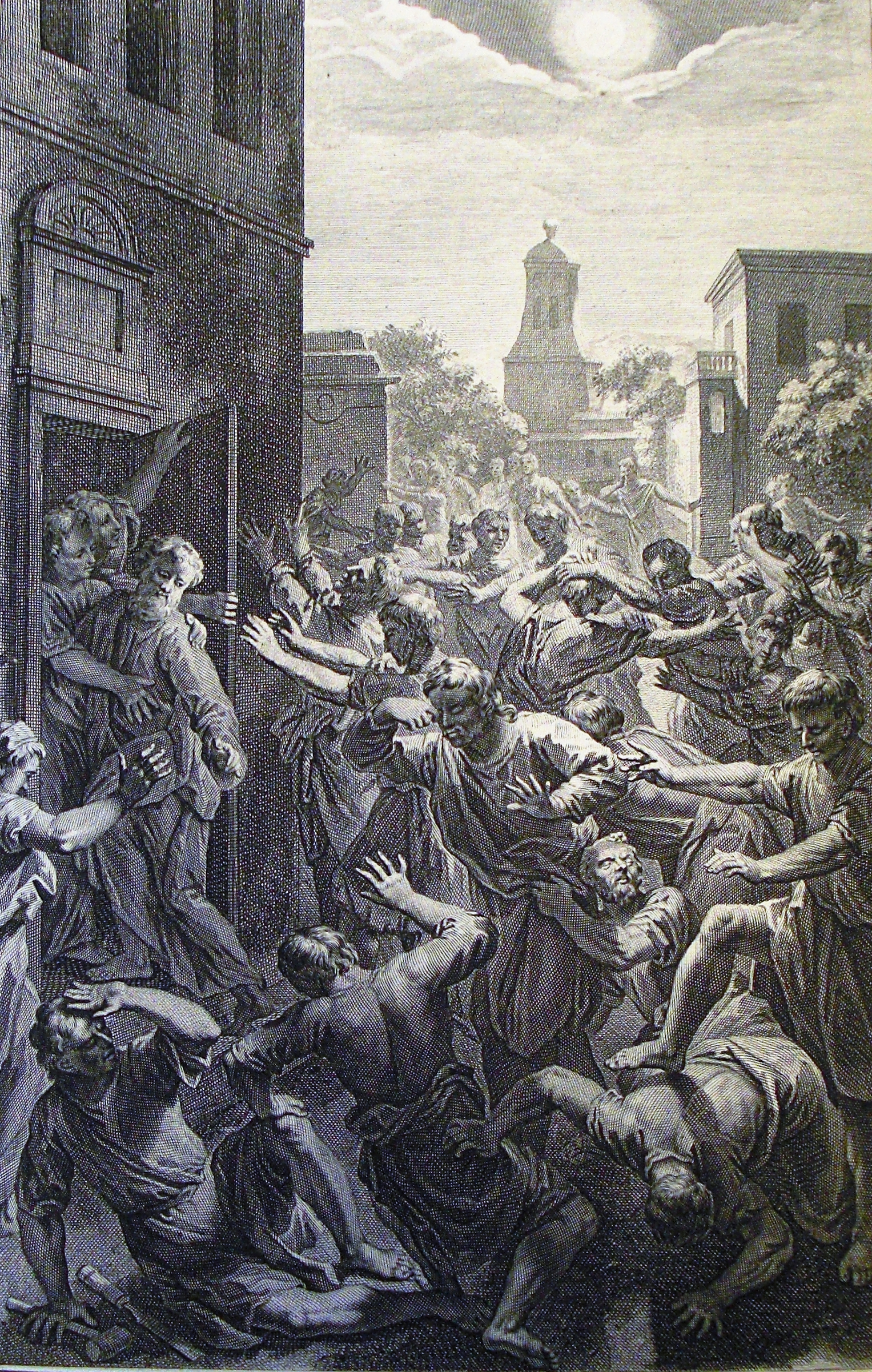 In the collection of Revd. Philip De Vere at St. George’s Court, Kidderminster, England.